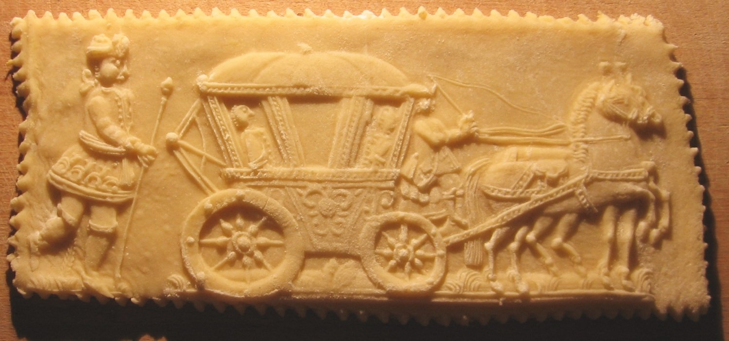 Springerle raw just out of the wooden mould form before 24h of drying to keep the surface pattern